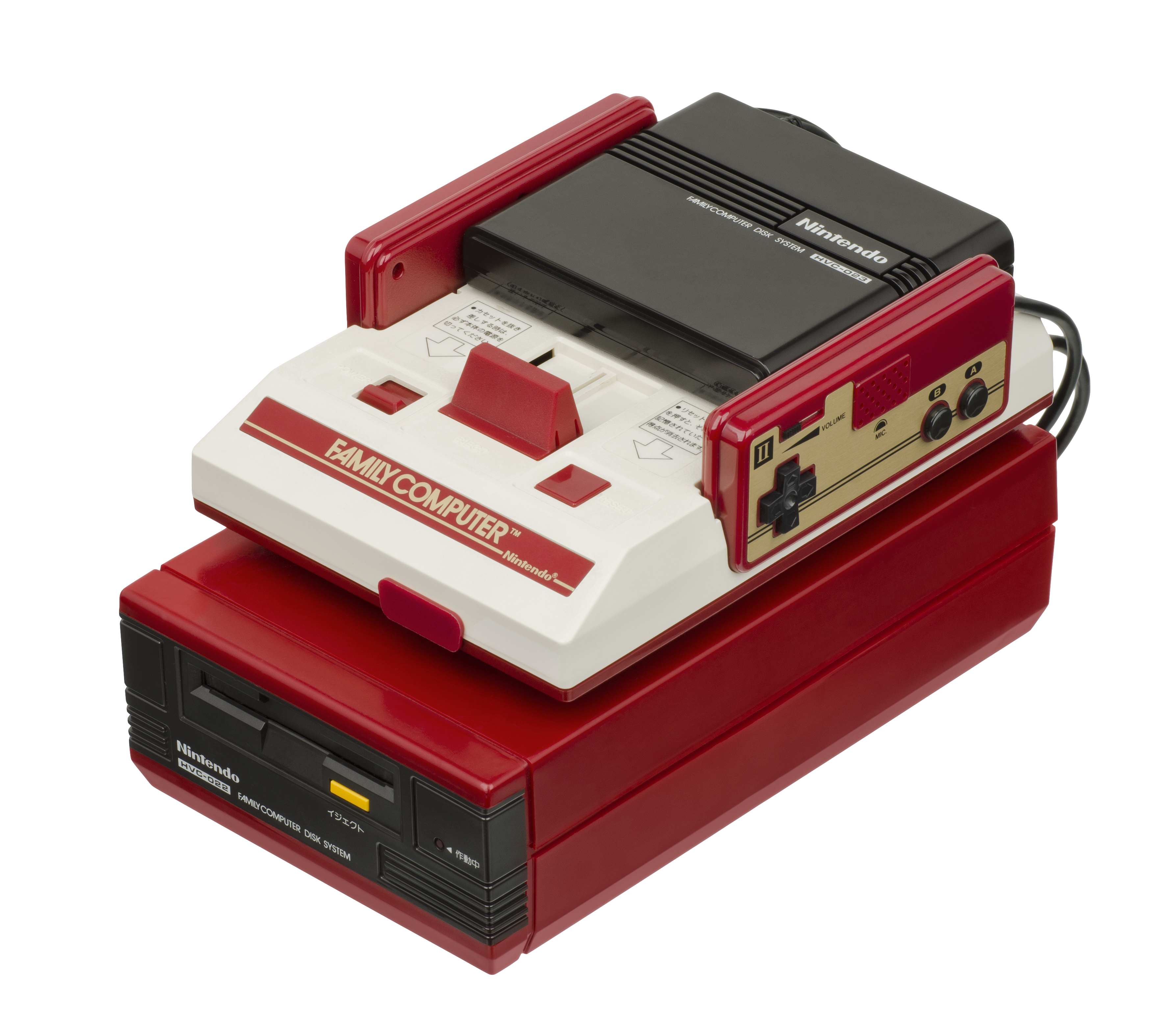 A Japanese Nintendo Famicom shown with the Disk System add-on.